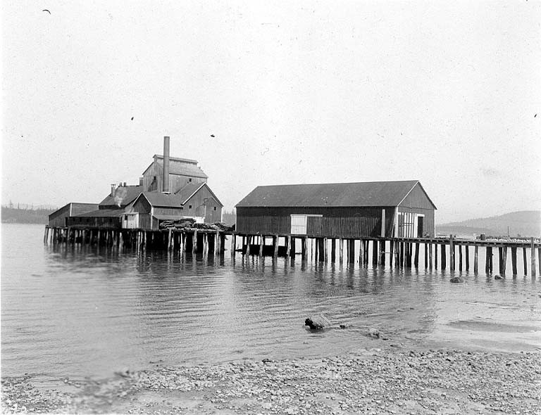 From John Cobb field notebook: Fertilizer plant of Robinson Fisheries Co. near Anacortes, Wn., Apr 22, 1910 Subjects (LCTGM): Fertilizer industry--Washington (State)--Anacortes Subjects (LCSH): Robinson Fish Company